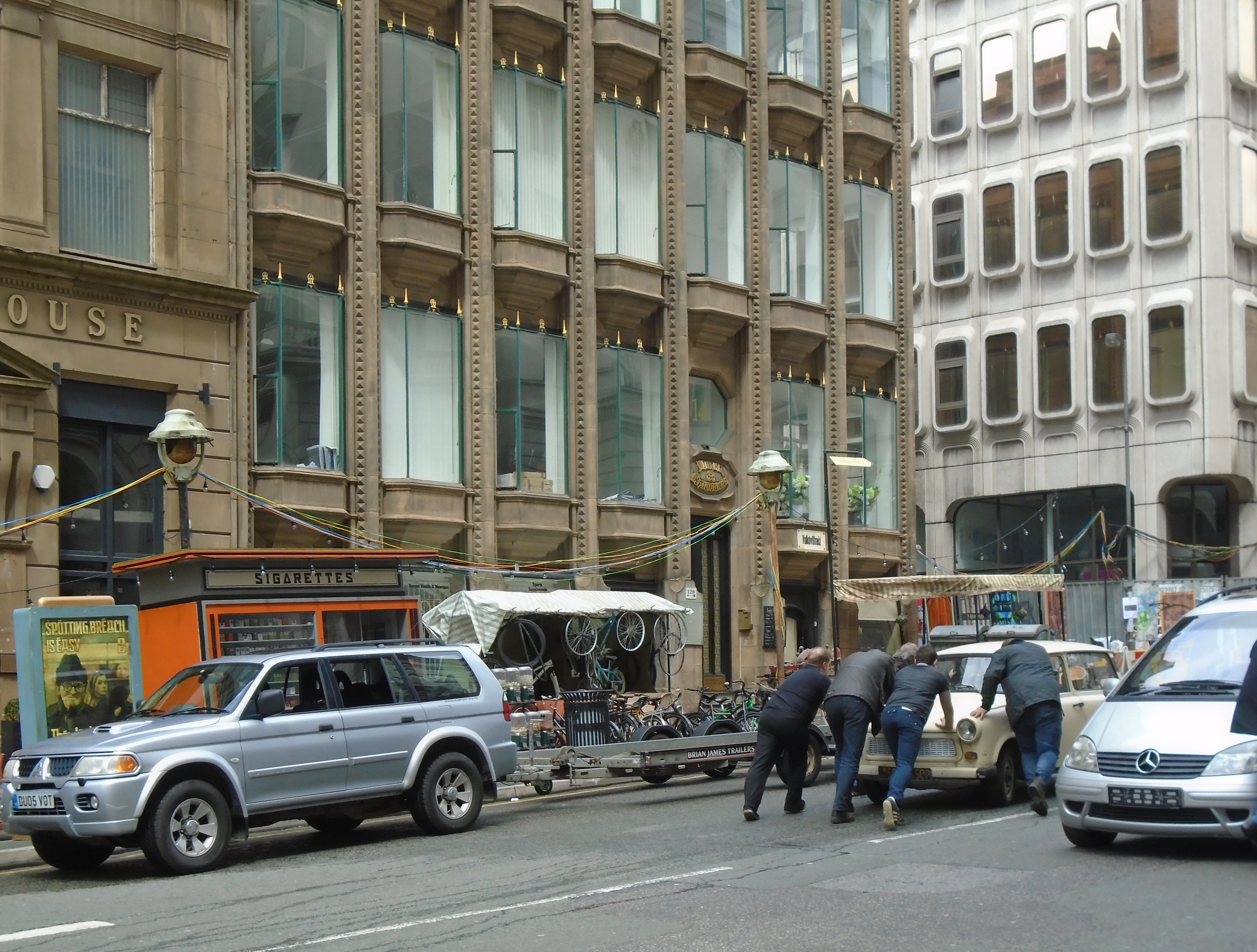 View towards the Town Hall; people moving a Trabant. They obviously don't know its reputation.